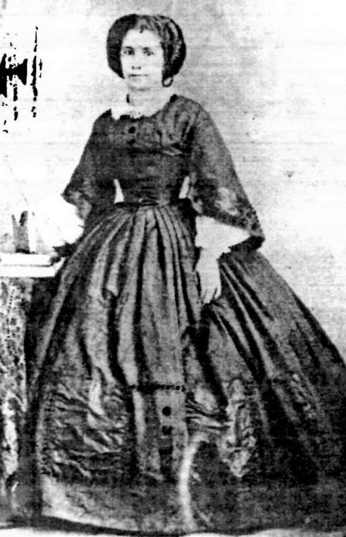 Perfil de Tomasa Vélez Sarsfield joven. Gentileza de Aldo Marcos de Castro Paz.